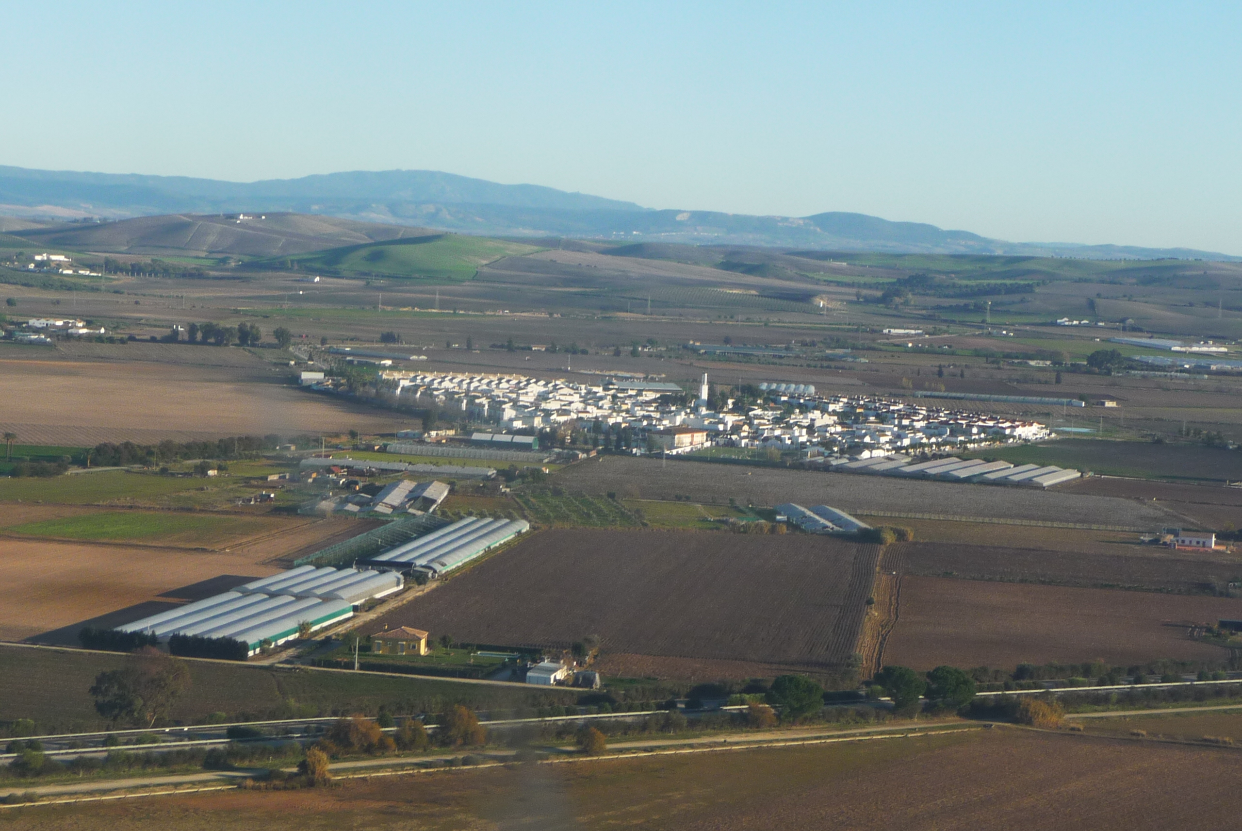 Nueva Jarilla when Landing in Jerez airport